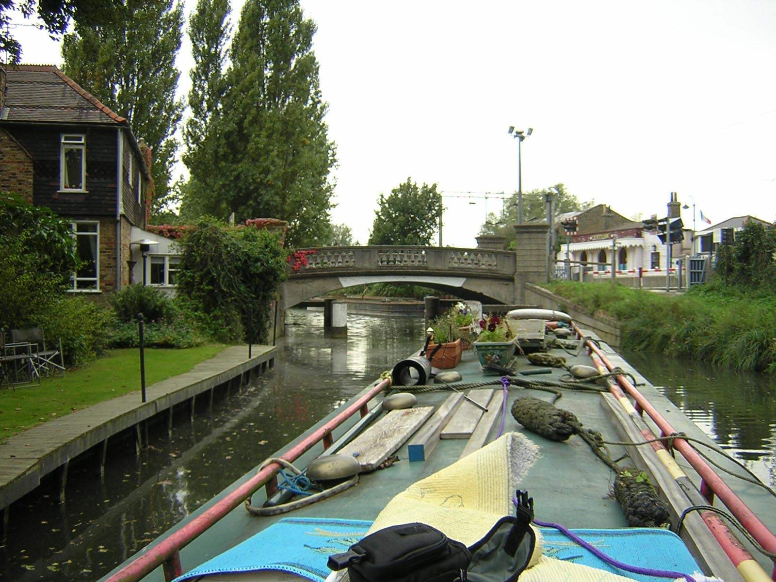 Approaching Roydon on the Stort Navigation